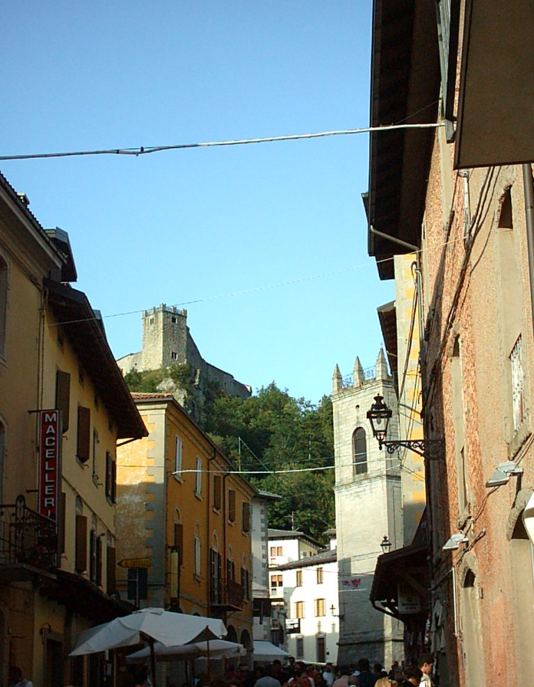 Sestola (province of Modena, Italy) - The Castle and the old bell tower seen from an alley